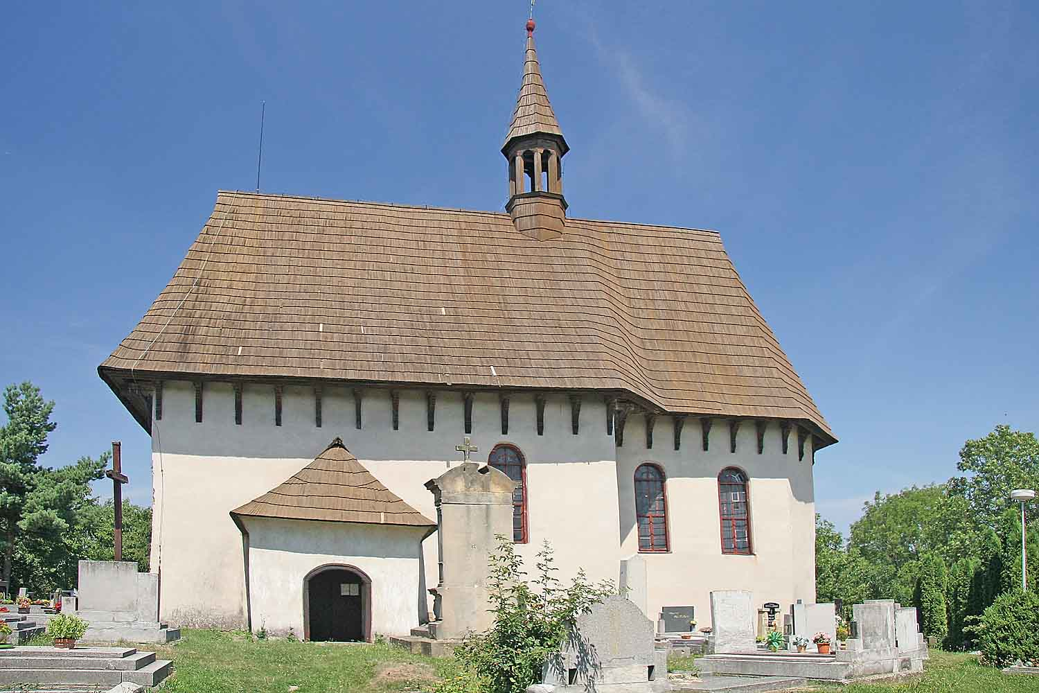 Wooden church of St Wenceslas in Kozojedy, Jičín District, Czech Republic autor: Prazak date: 20. 7. 2006